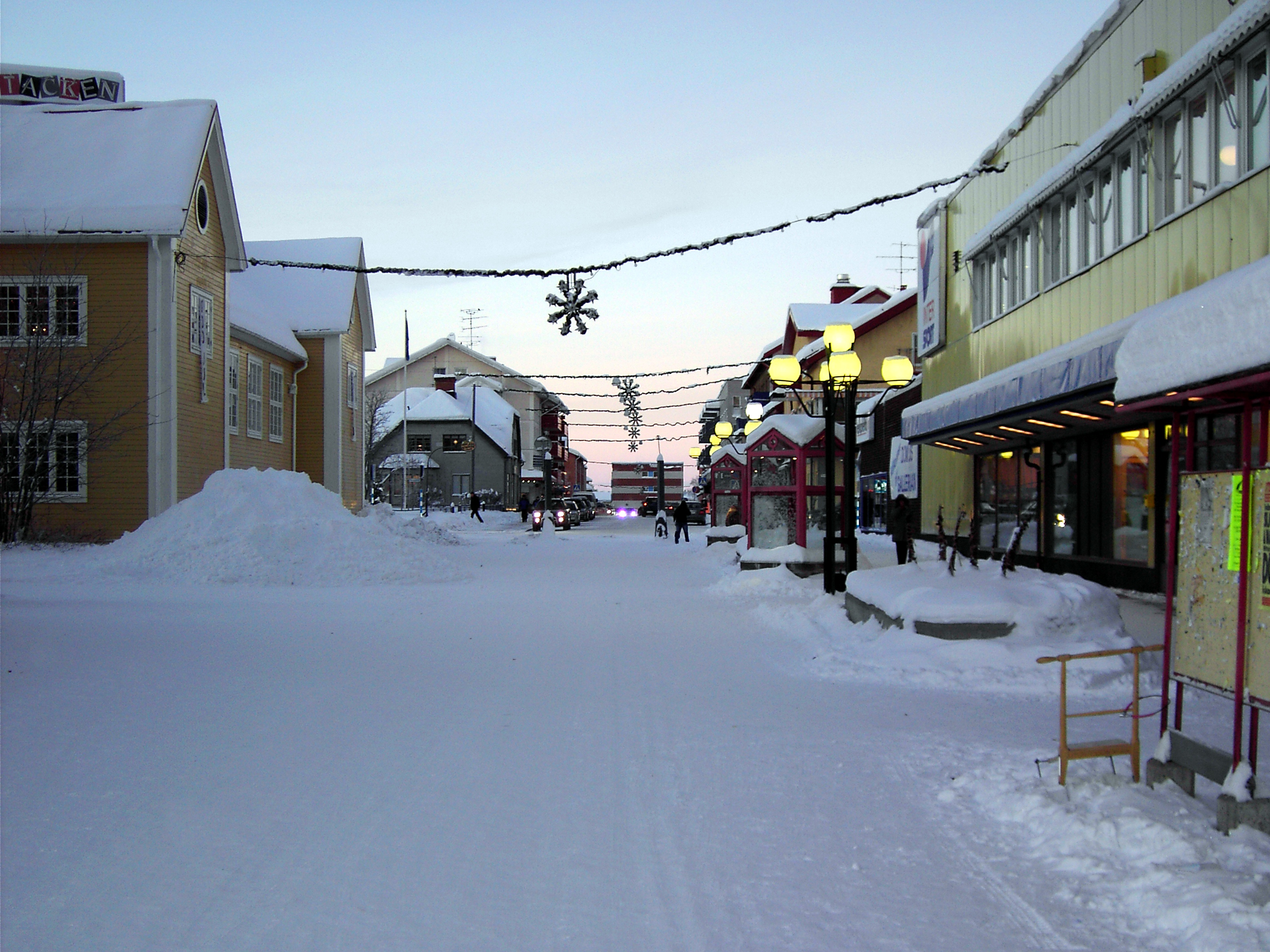 Storgatan i Gällivare med julbelysning